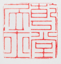 Himself Seal of KOSONE KENDO(1828-1885)(seal carving artist) 52x52mm